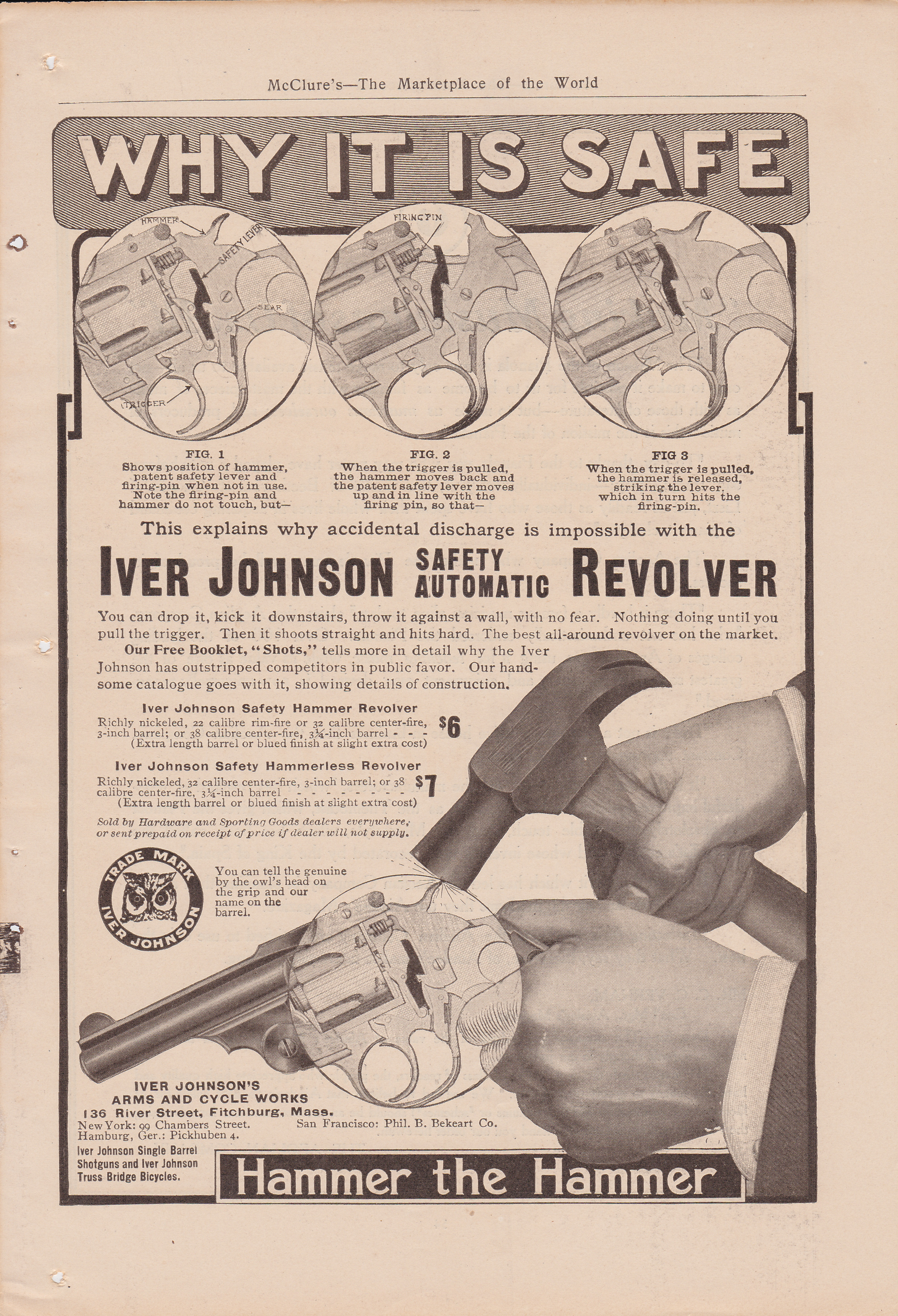 Advertisement for Iver Johnson breakthrough technology.